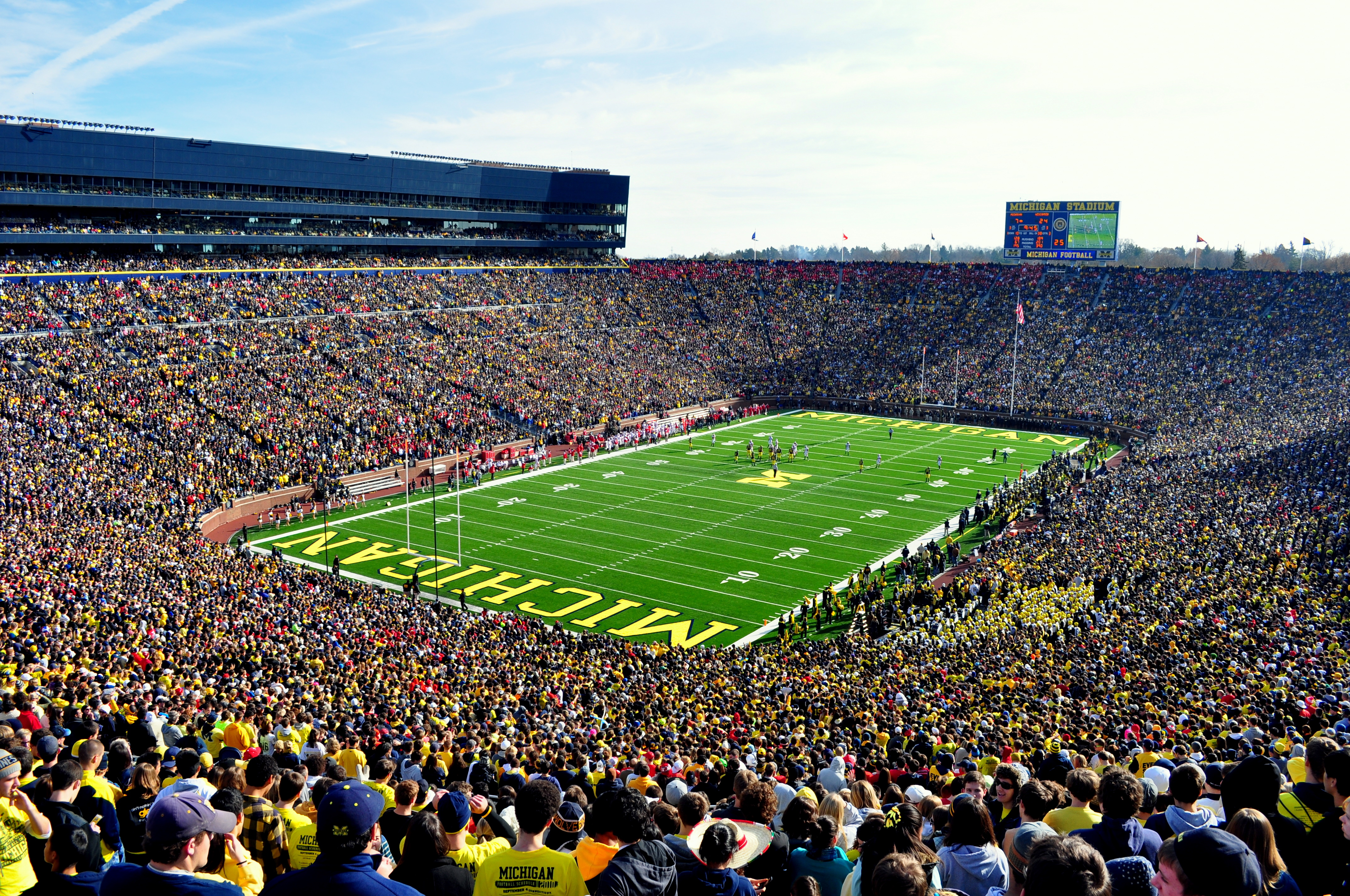 A photo of Michigan Stadium.